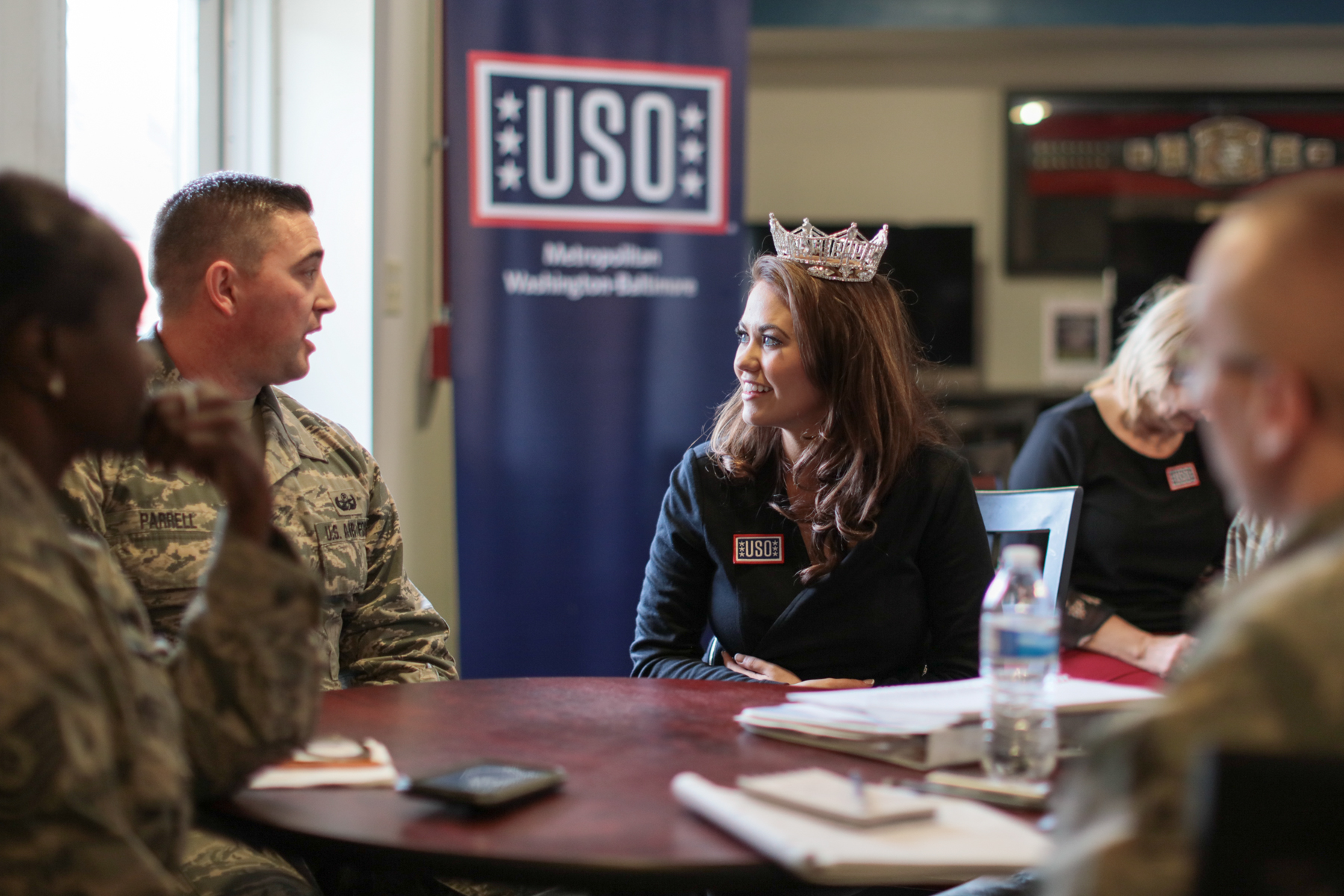 (L-R) Tech. Sgt. Alison Bruce-Maldonado and Ssgt. Wesley Parrell, both with the USAF 336th Training Squadron, Detachment 2 at DINFOS, talk with Miss America 2018 Cara Mund. A1C. Noah Tancer is pictured far right..Miss America 2018, Cara Mund, of North Dakota, visits the Fort Meade USO to meet with service members, Wednesday, January 24, 2018.